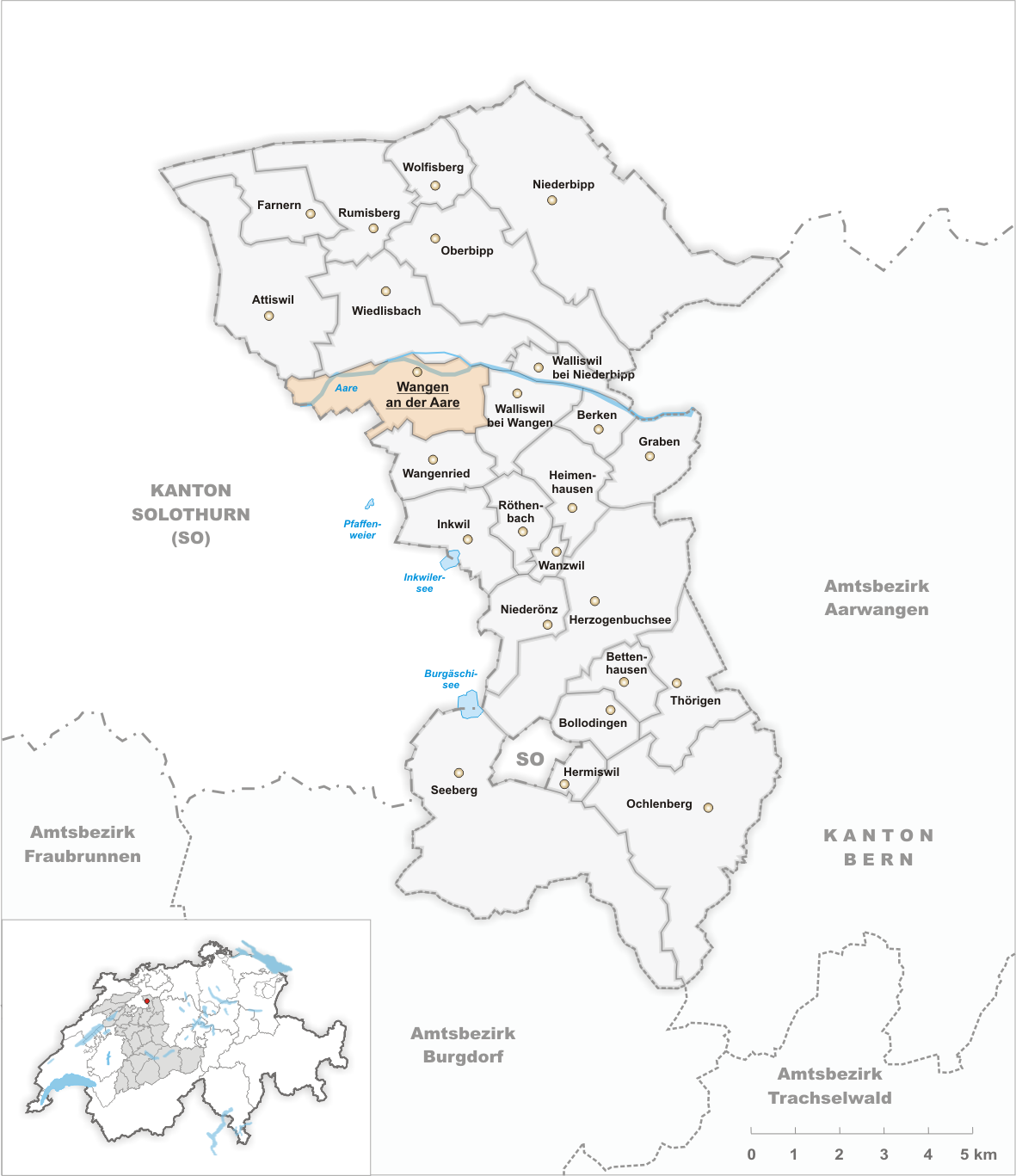 Municipality Wangen an der Aare